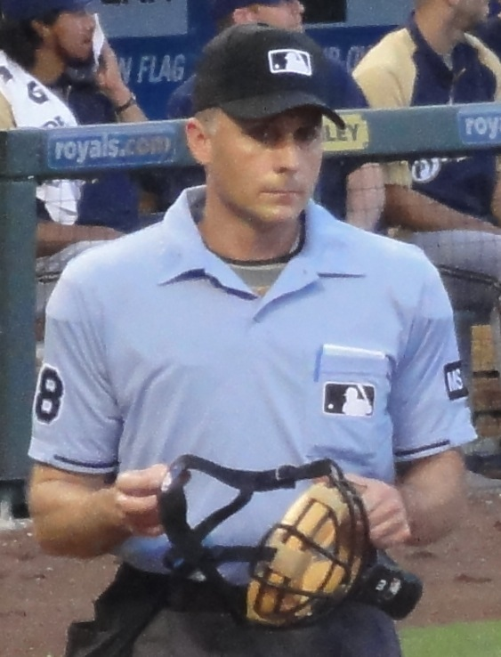 MLB umpire Dan Iassogna - Brewers at Royals, June 14, 2012.